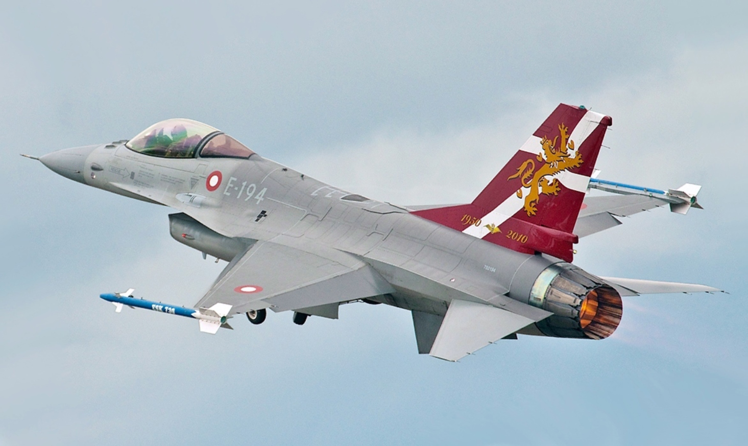 Royal Danish AirForce F-16 Solo display RIAT 2011